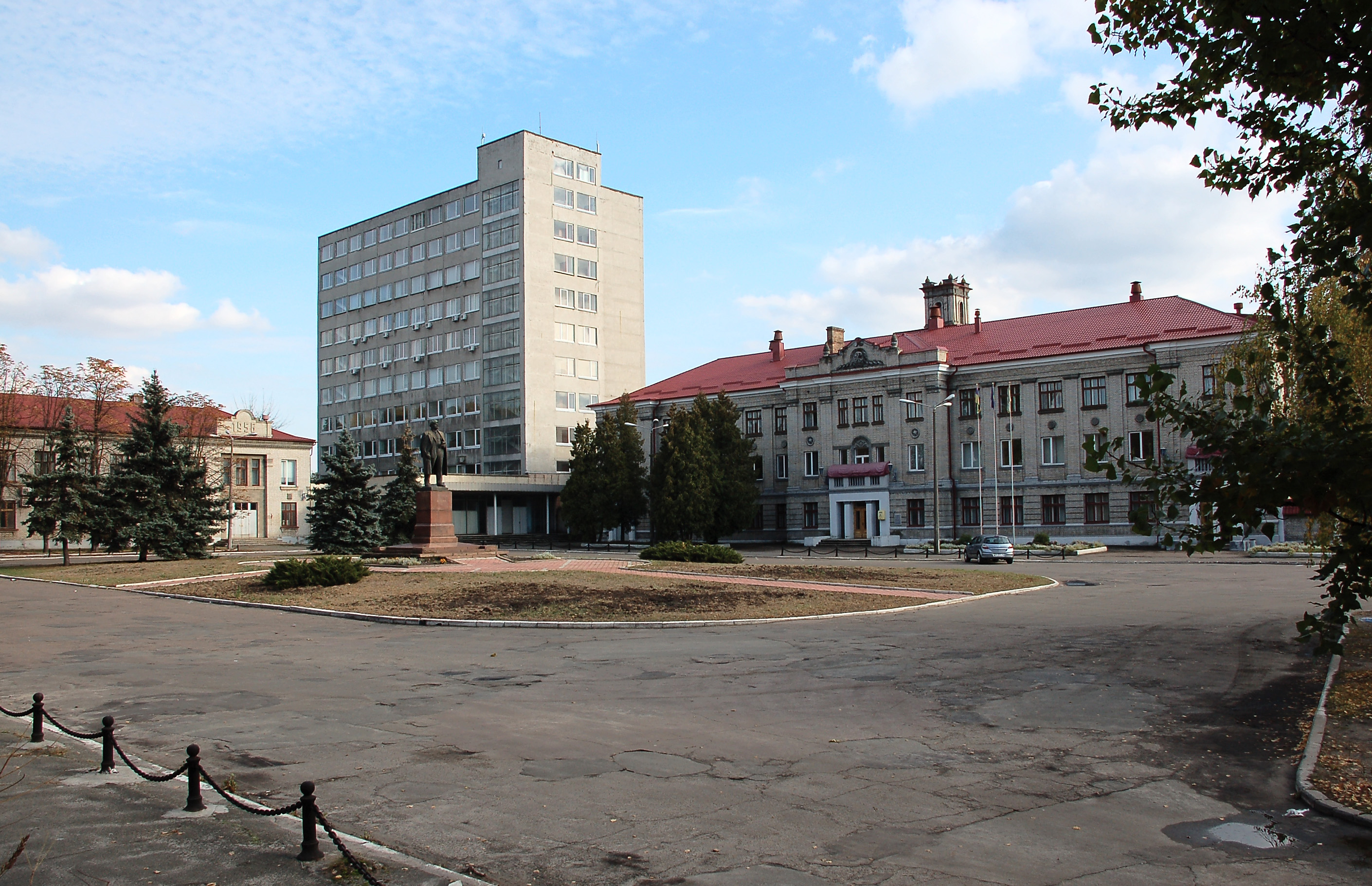 Kiev, square in front of the main house of Darnitski railway carriage repair plant